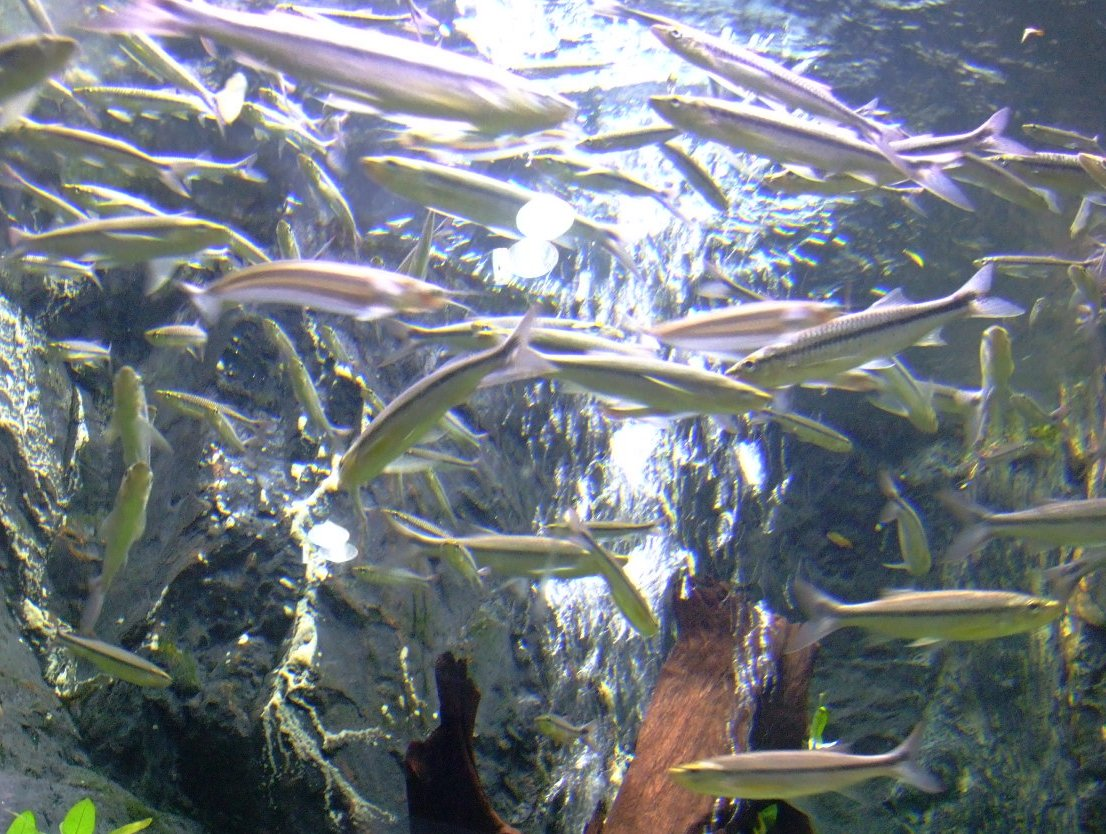 School of Luciosoma bleekeri (ปลาซิวอ้าว Pla siu ao) at Bueng Chawak Aquarium in Suphanburi